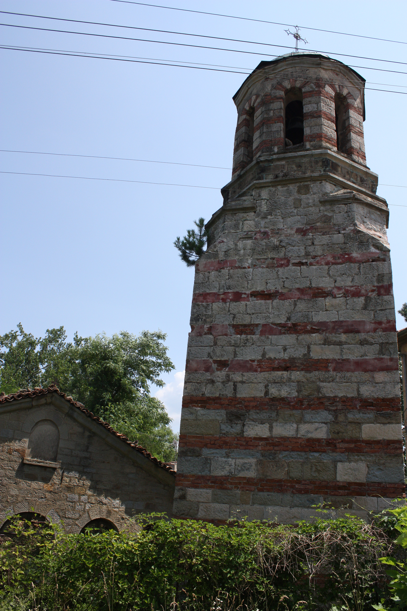 The Church in Gardevtsi, Bulgaria